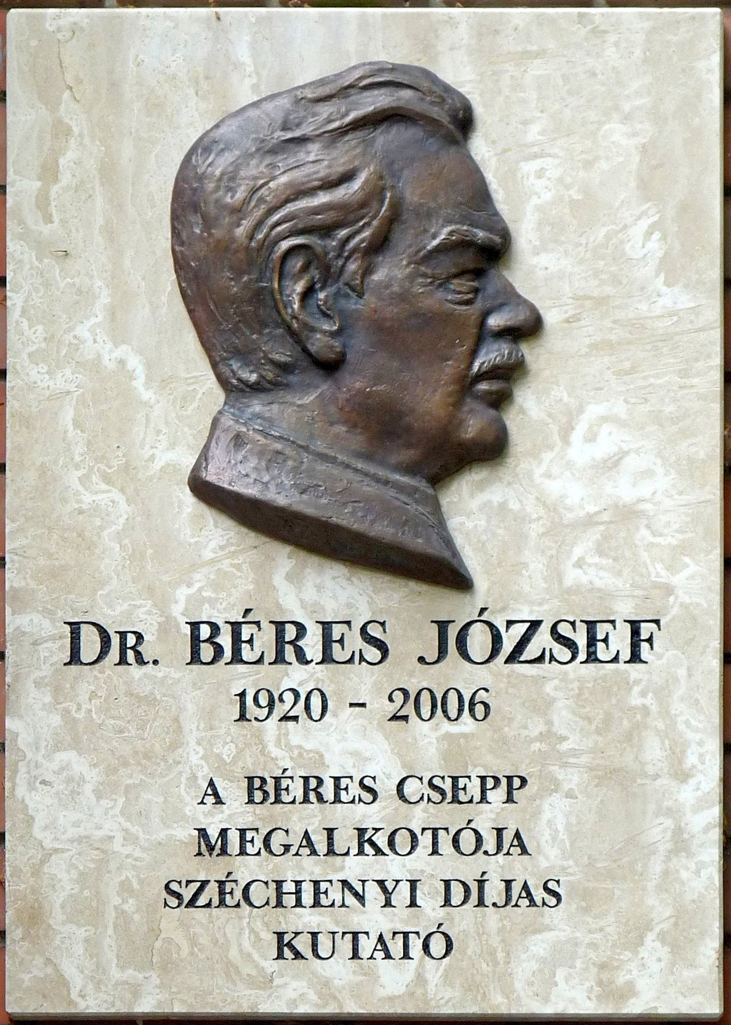 Commemorative plaque to Mr. József Béres (1920-2006) Hungarian researcher who developed the "Béres Drops.", a product fortifying the immune system. It was affixed to the front of the primary school bearing his name and unveiled on September 21 2012. The author of the bronze relief is Mr. Barna Búza. (Budapest, District III, Keve Street Nr 41)